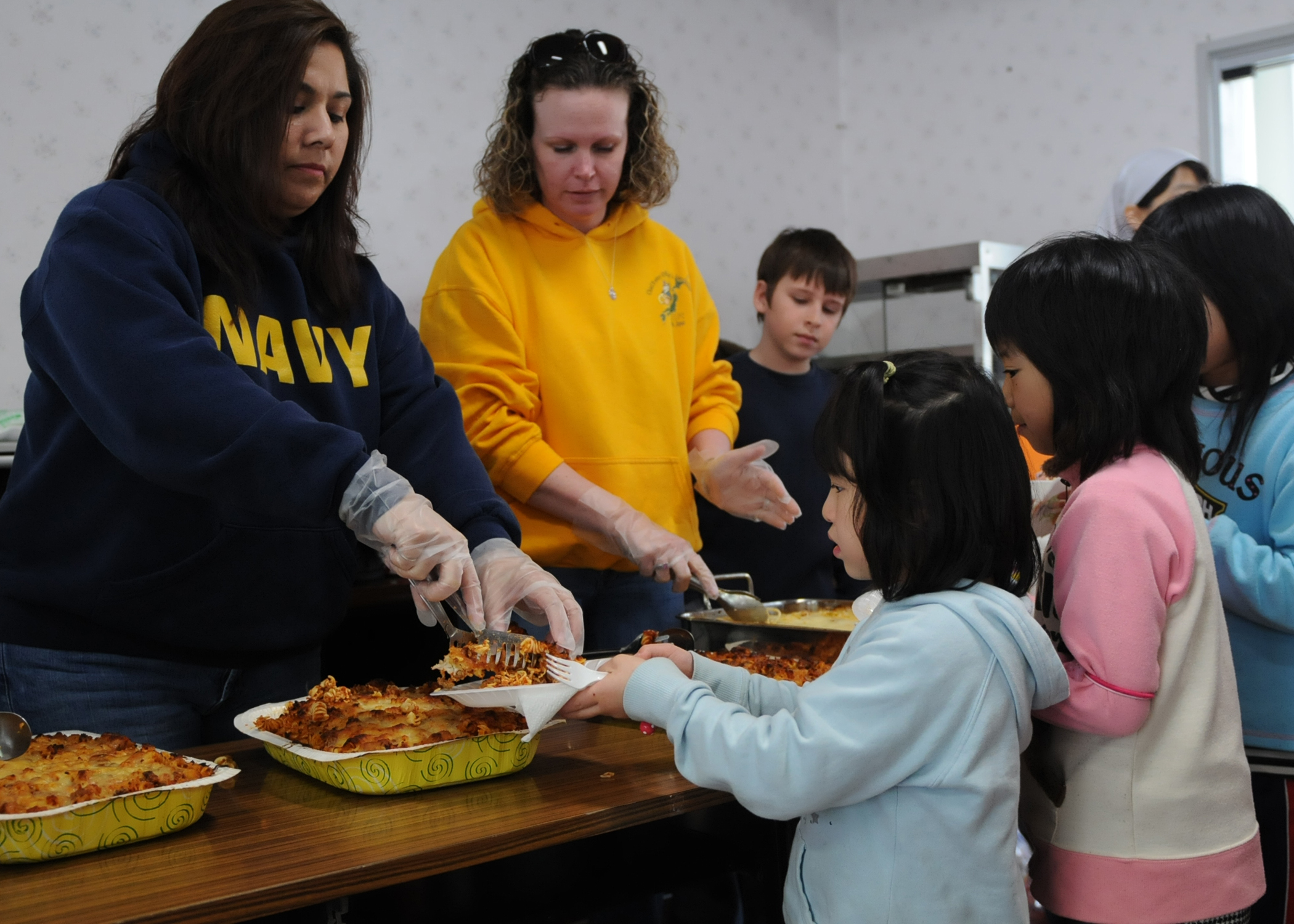 SHICHINOHE, Japan (March 26, 2011) Juanita Reed, left, from Darien, Wisc. and Chief Cryptologic Technician (Collection) Melanie Varner, right, from Port St. Lucie, Fla. serve Italian food to Japanese families at the Biko-en Children's Care House during a community service project hosted by service members assigned to Naval Air Facility Misawa and Misawa Air Base. Volunteers also donated food, clothing and toys to the center. (U.S. Navy photo by Mass Communication Specialist 2nd Class Devon Dow/Released)